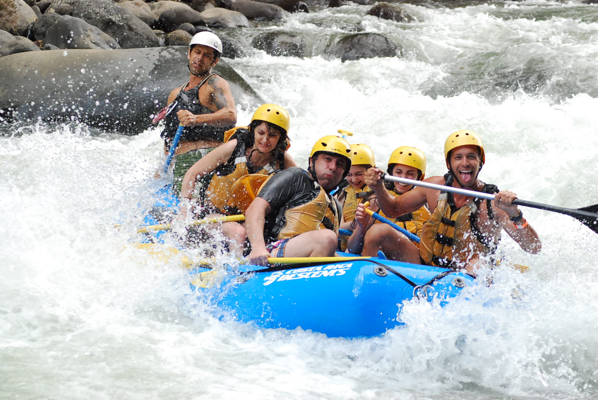 Rafting in La Fortuna, Costa Rica, January 2013